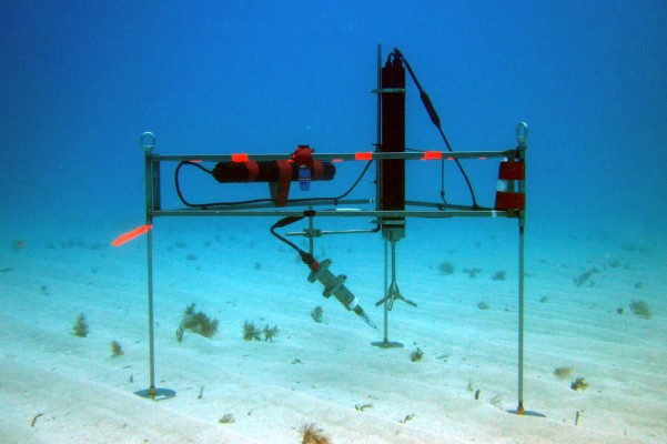 An apparatus that measures oxygen flux in benthic environments using the eddy correlation technique.